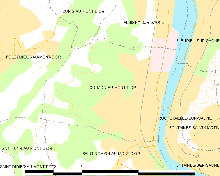 Map of French municipality